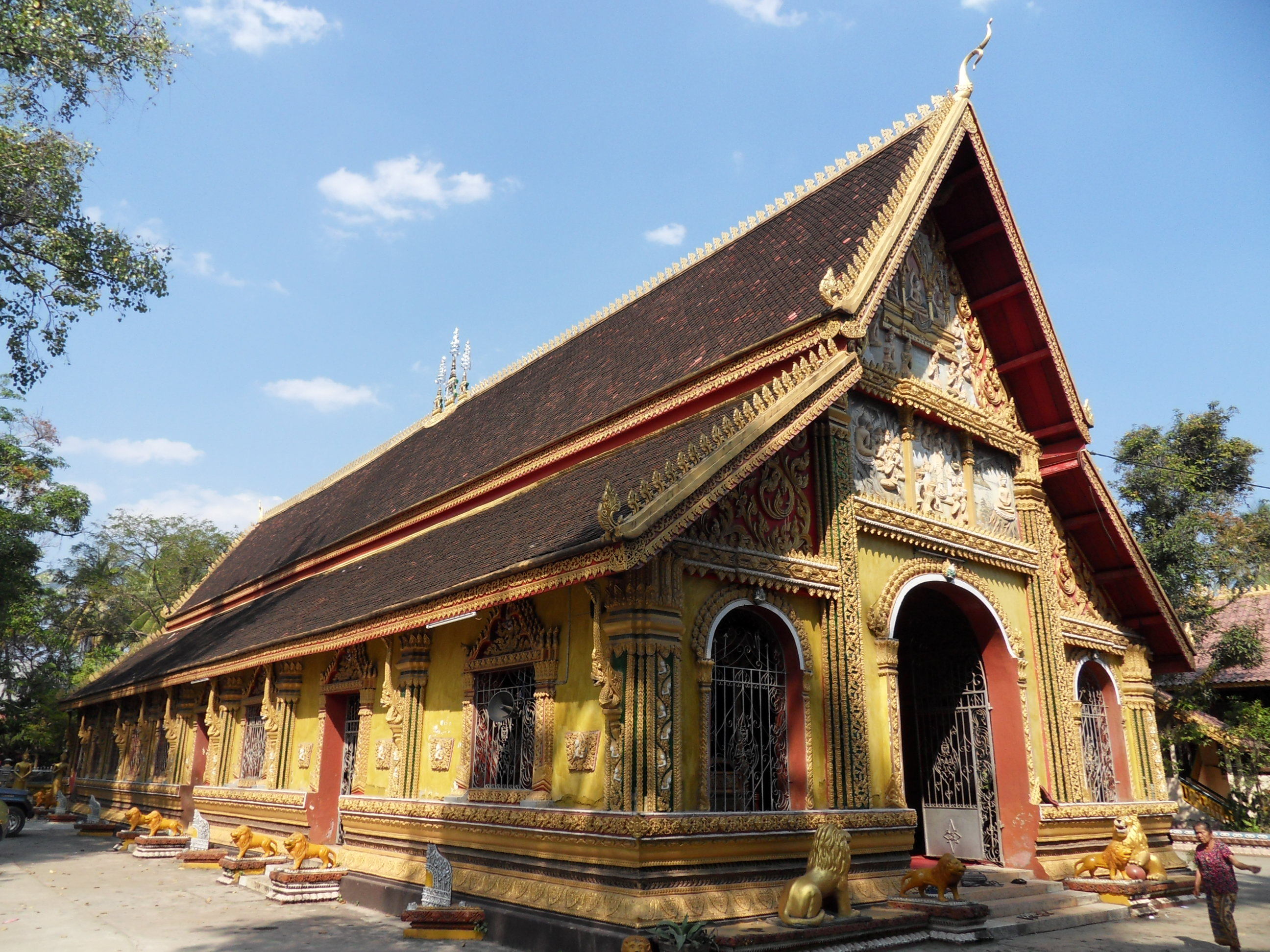 Wat Simuang